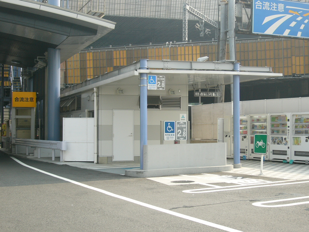 Oi Parking Area (East)